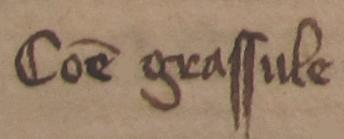 Grassera 1260